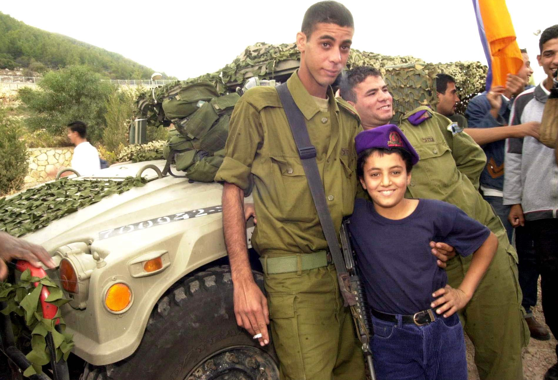 "The battalion is like our family, " soldiers in the Bedouin reconnaissance battalion said to schoolchildren in the Bedouin community. Every year soldiers and their commanders travel to the students to share personal stories and experiences they've had while in the IDF. Pictured: A Bedouin soldier and schoolchild during the yearly ceremony. Official Facebook page of the Israel Defense Forces The Israel Defense Forces blog Follow us on our Official Twitter